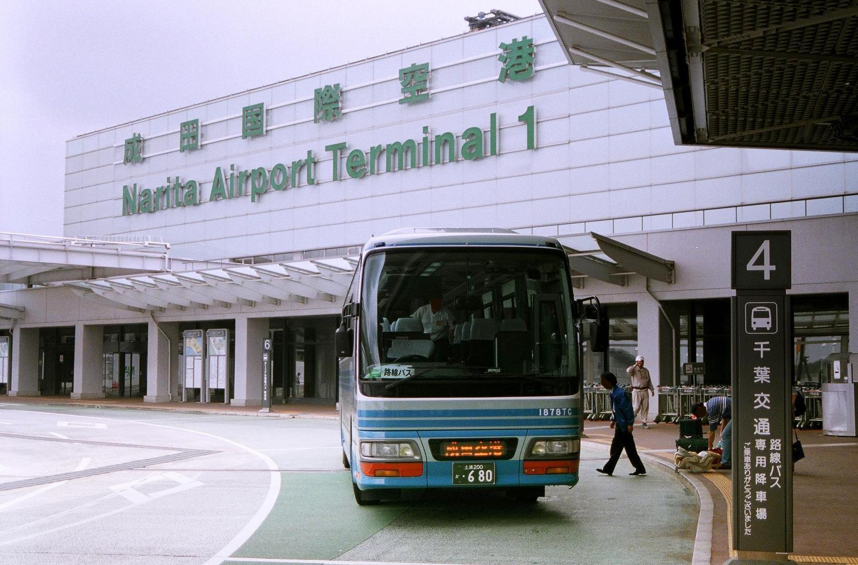 Kanto Railway Bus NATT'S Airport buses of Narita International Airport(Japan).